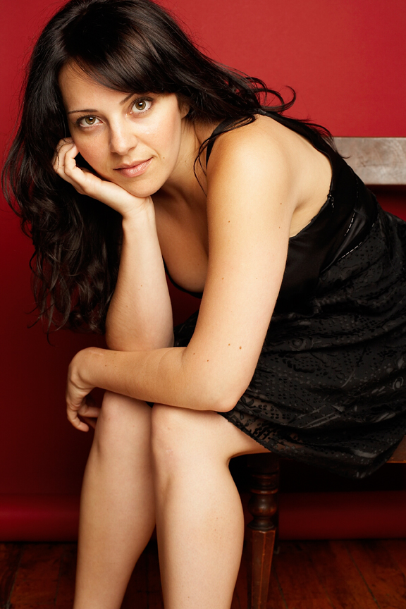 Head shot picture of Riva Di Paola - Canadian actress